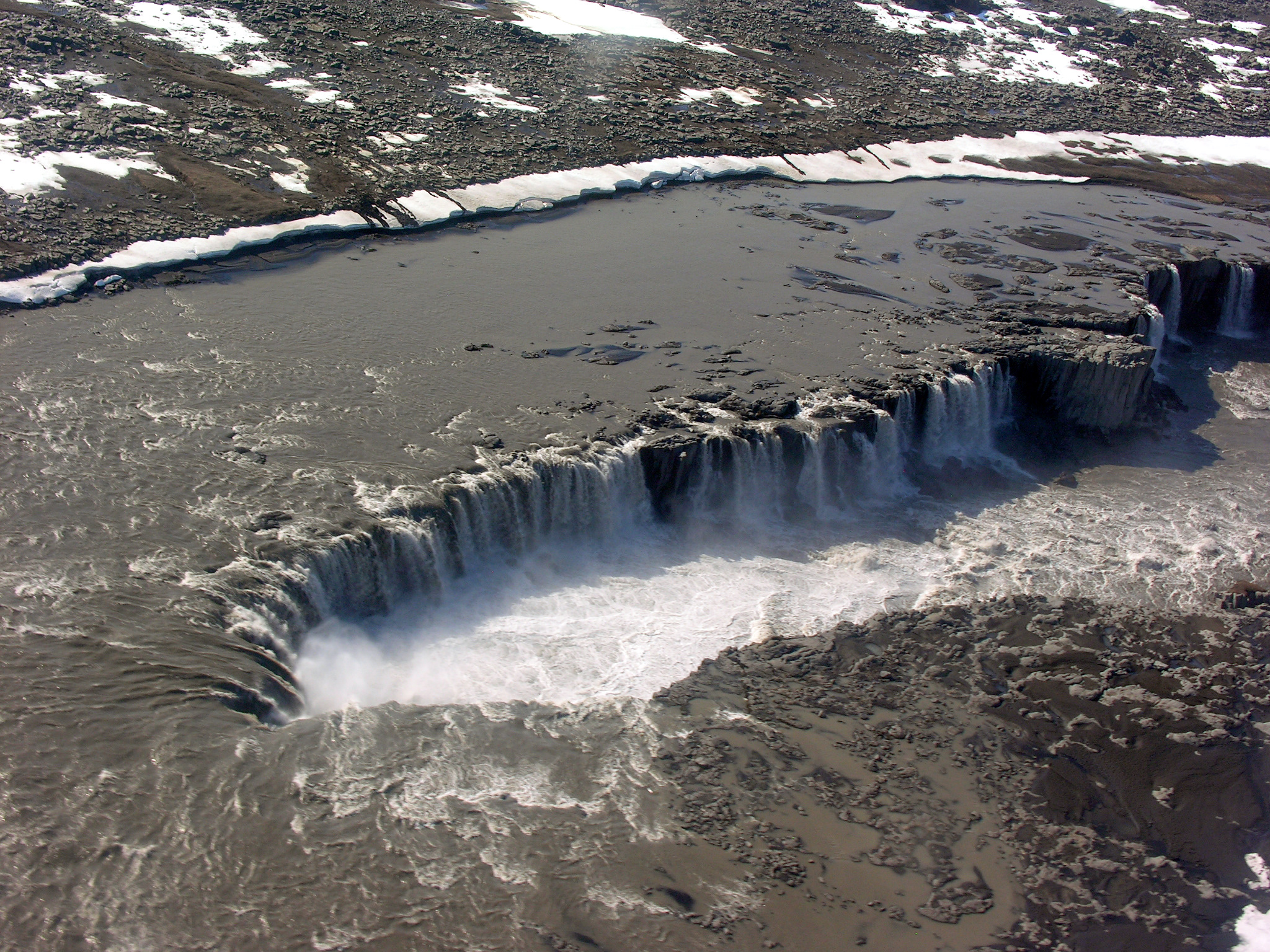 Aerial View of Selfoss